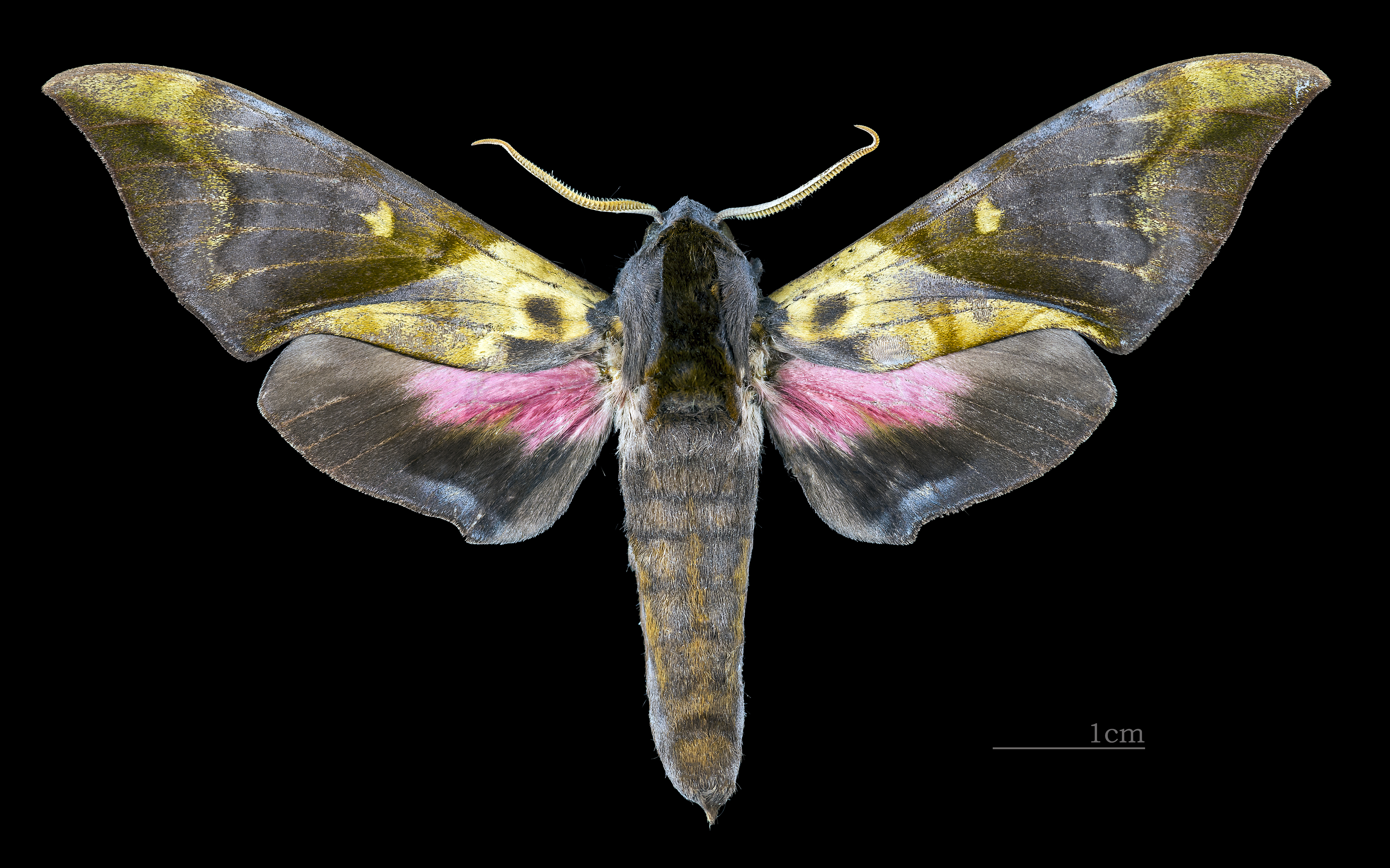 'Anambulyx elwesi - Dorsal side Collection of the Mathematician Laurent Schwartz